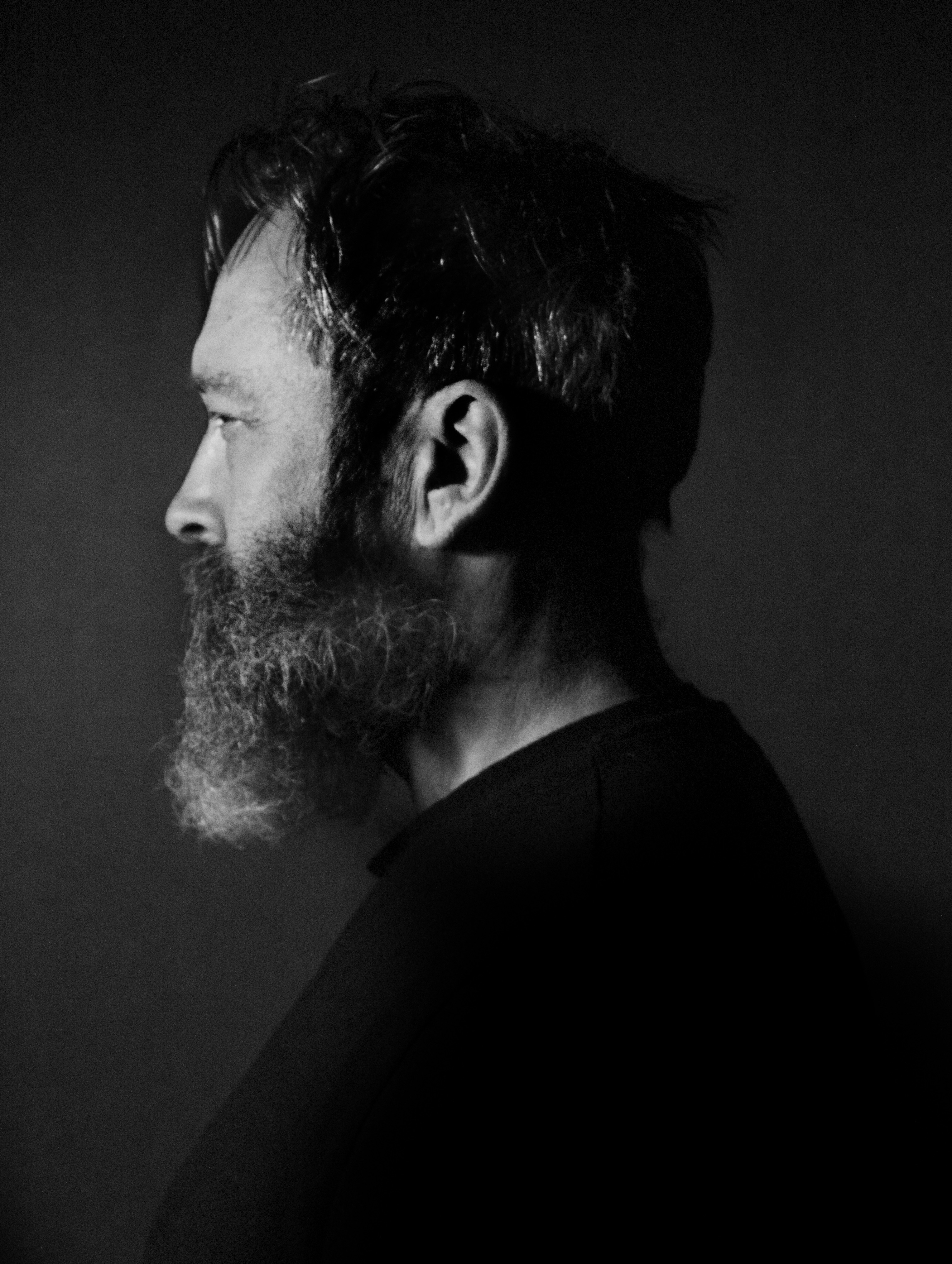 profile photo of Richard A Jacobson